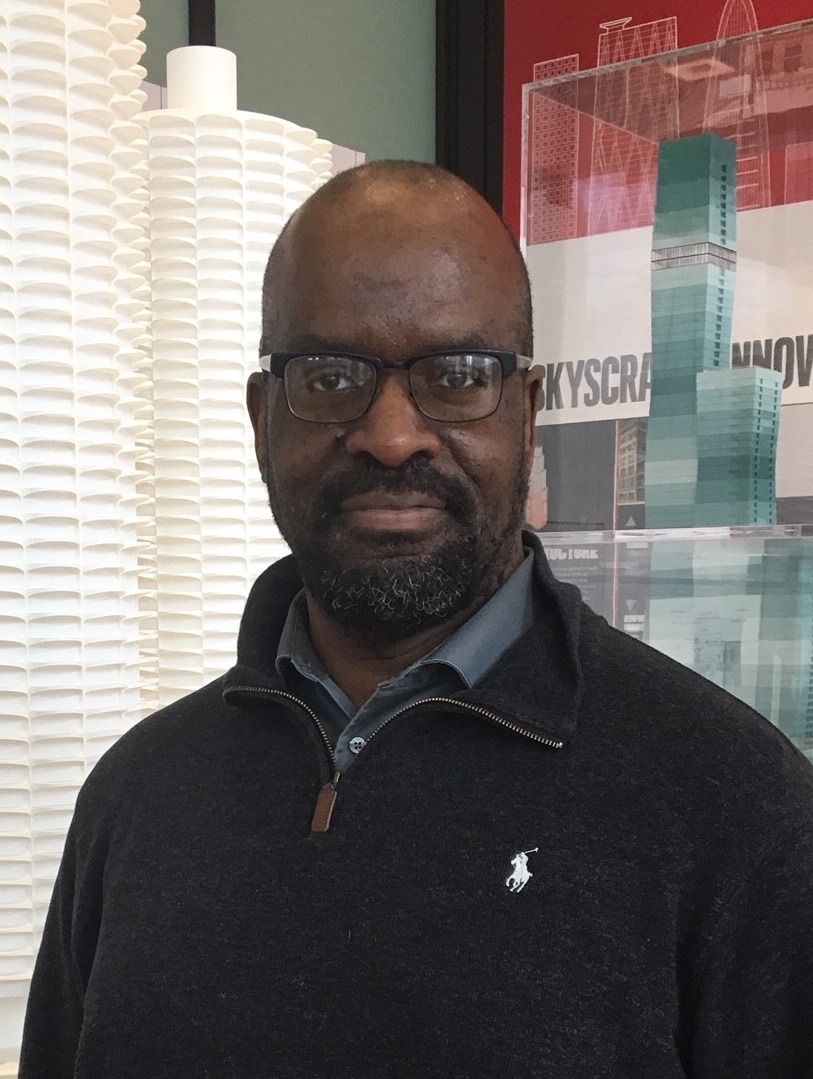 This is a photograph of Lee Bey taken before a presentation he made at the Chicago Architecture Center